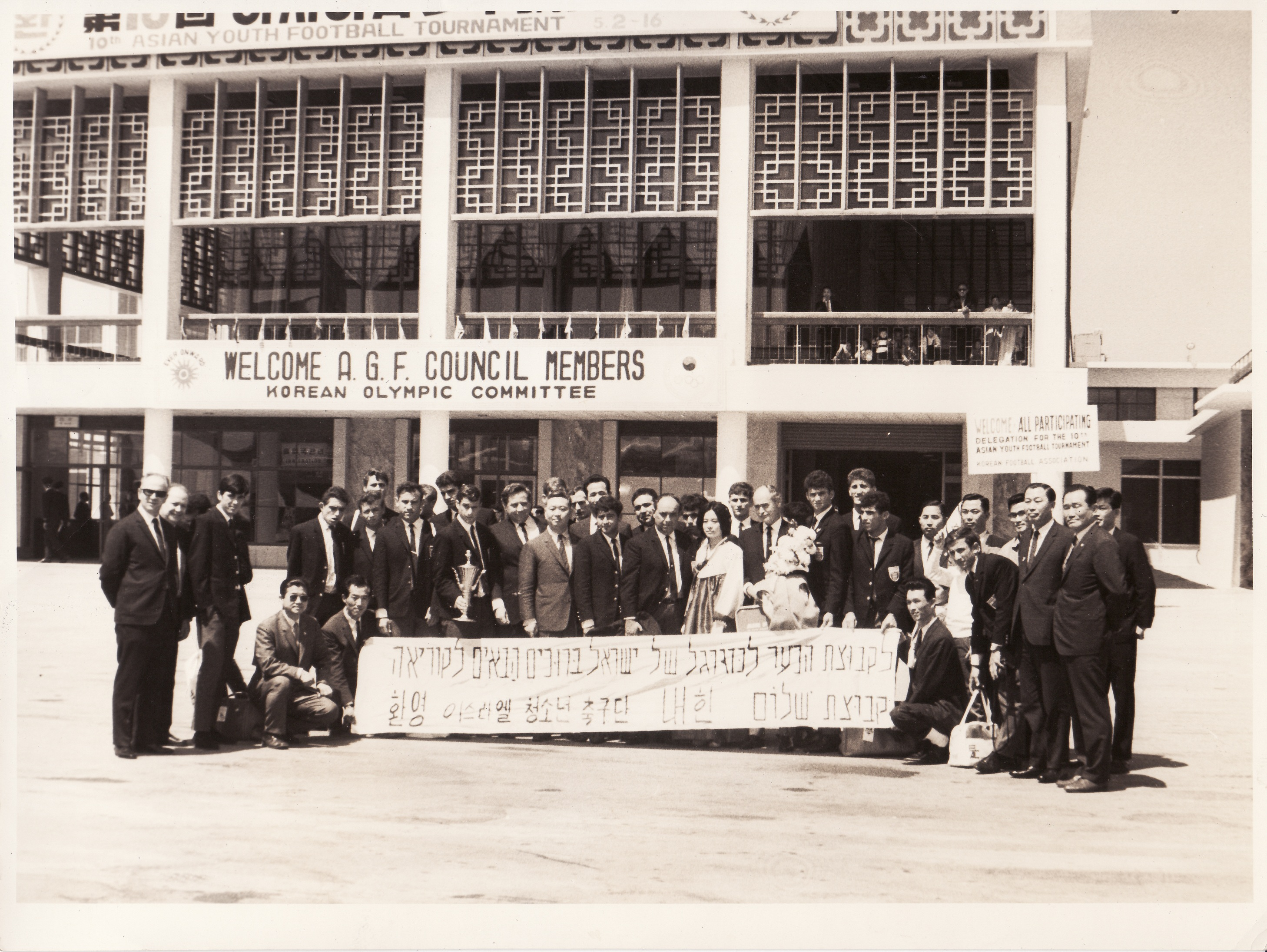 Israel football delegation